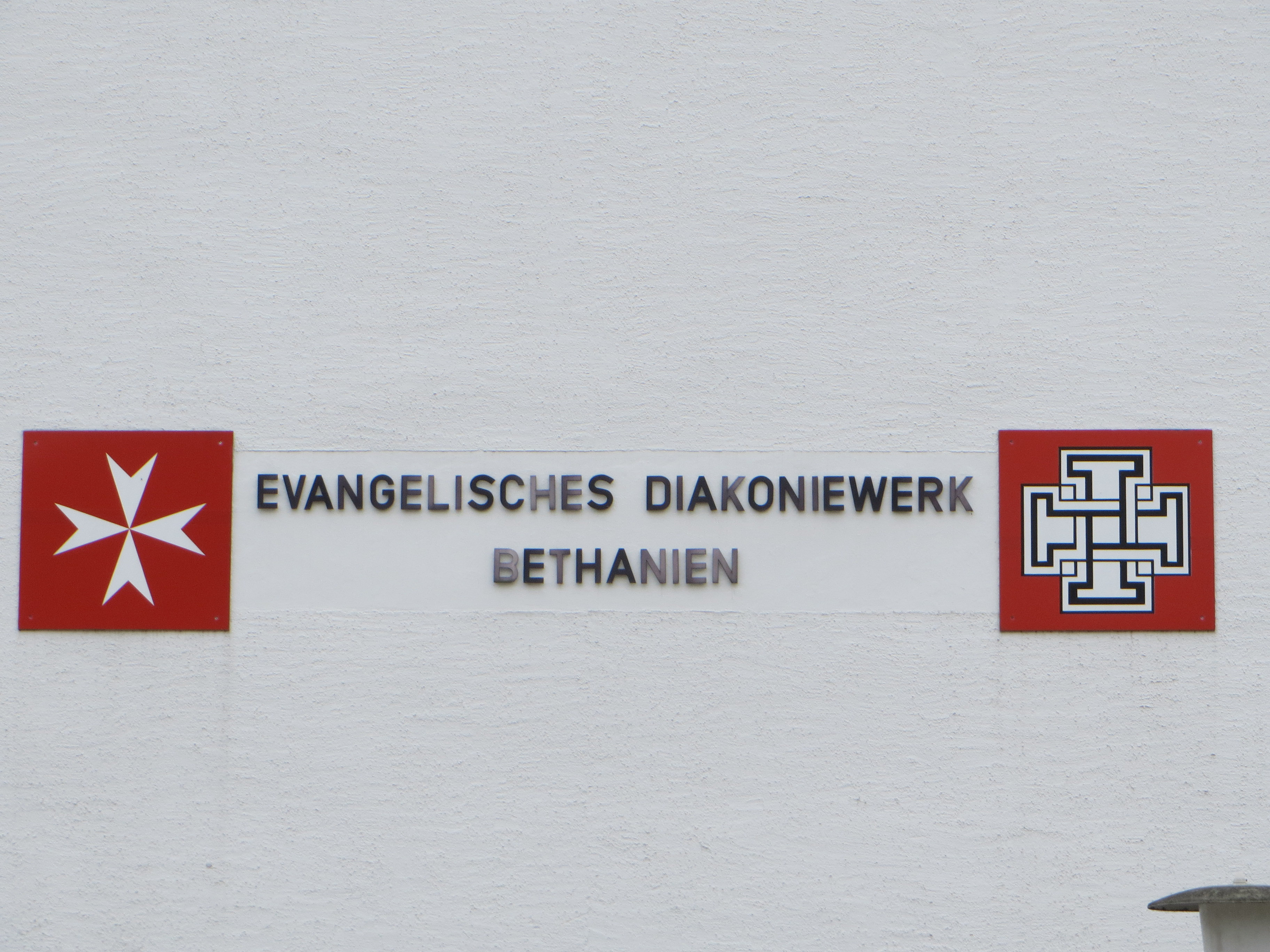 Bethanien Ducherow